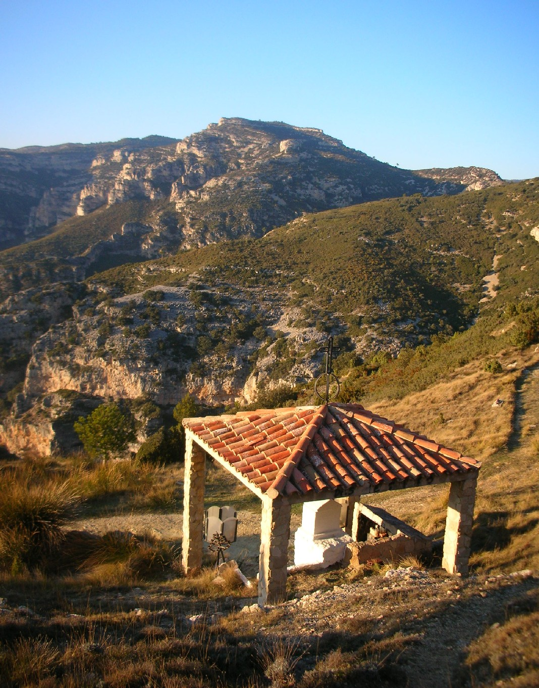 Exconjuratory at Pallerols, close to La Sénia, Ports de Beseit